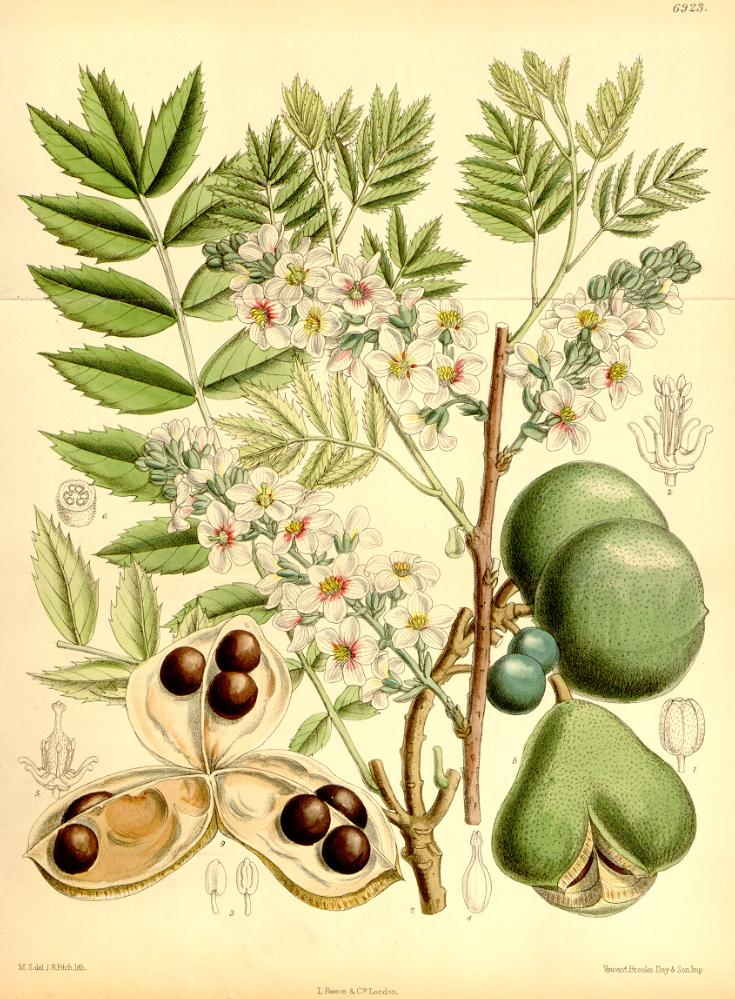 Illustration of Xanthoceras sorbifolium